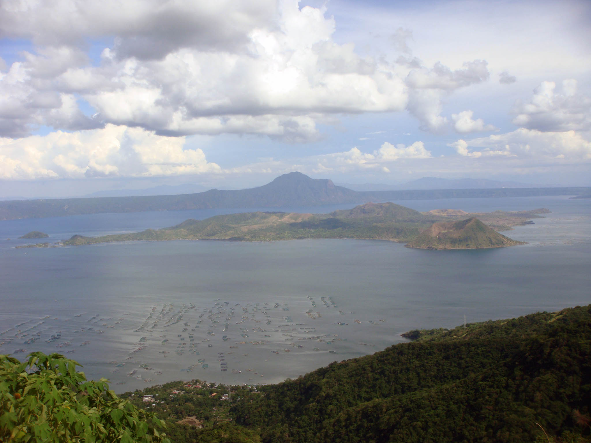 A scenic view of Taal Volcano from Tagaytay.